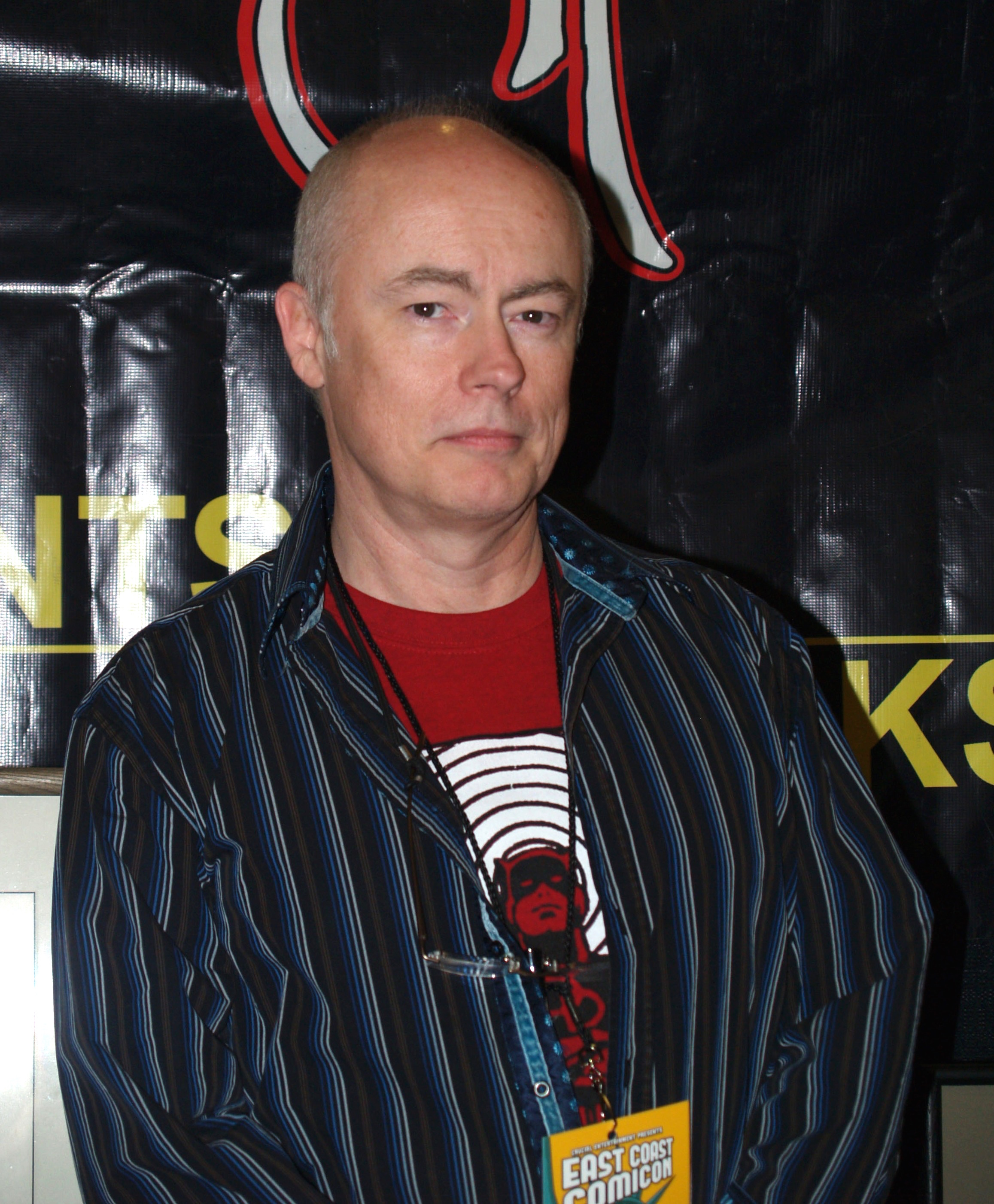 Writer/illustrator J. David Spurlock at the Meadowlands Exposition Center in Secaucus, New Jersey on April 11, 2015, Day 1 of the 2015 East Coast Comicon. This photo was created by Luigi Novi. It is not in the public domain, and use of this file outside of the licensing terms is a copyright violation.